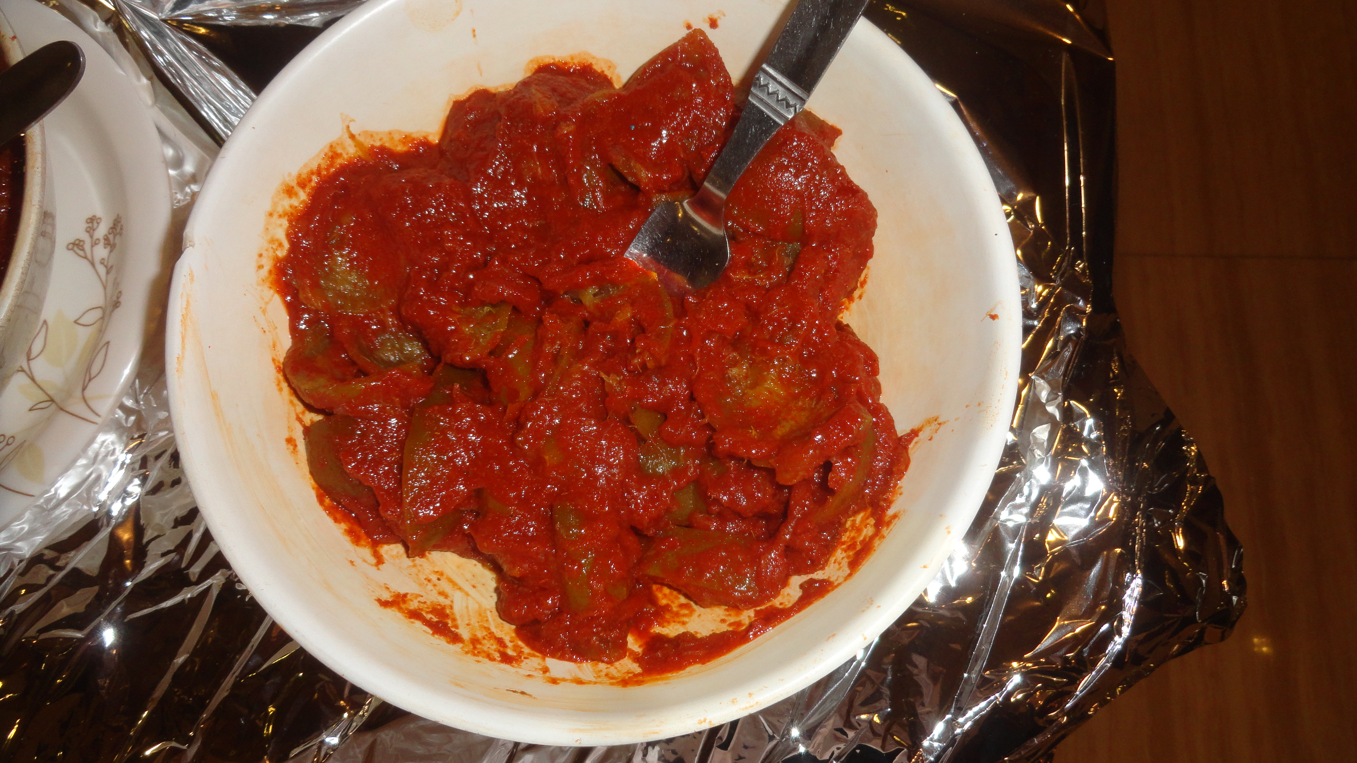 lemon pickle.